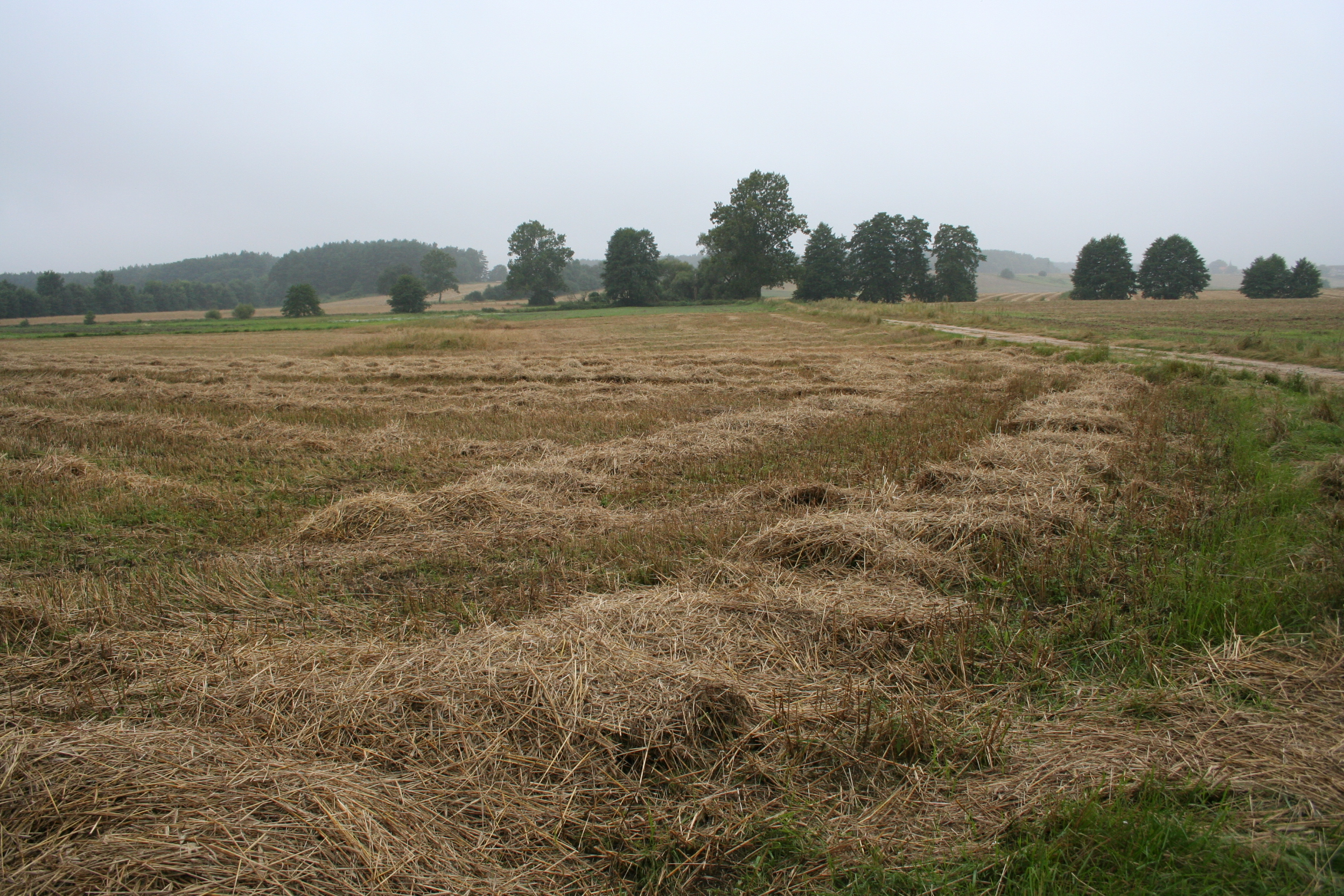 fields near Ławica village